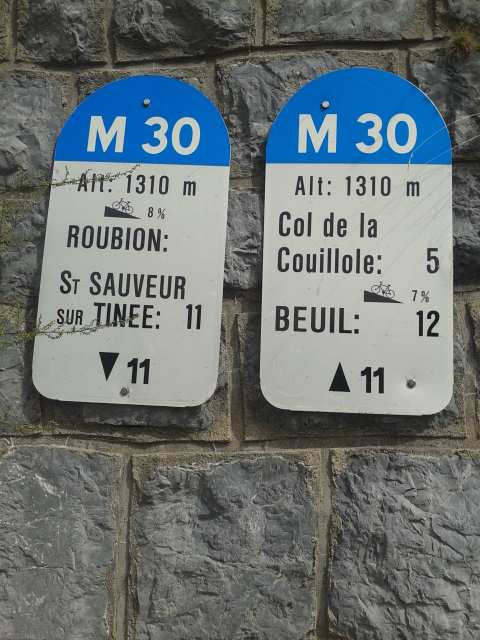 Mountain pass cycling milestone ascending Col de la Couillole from St Sauver sur Tinee